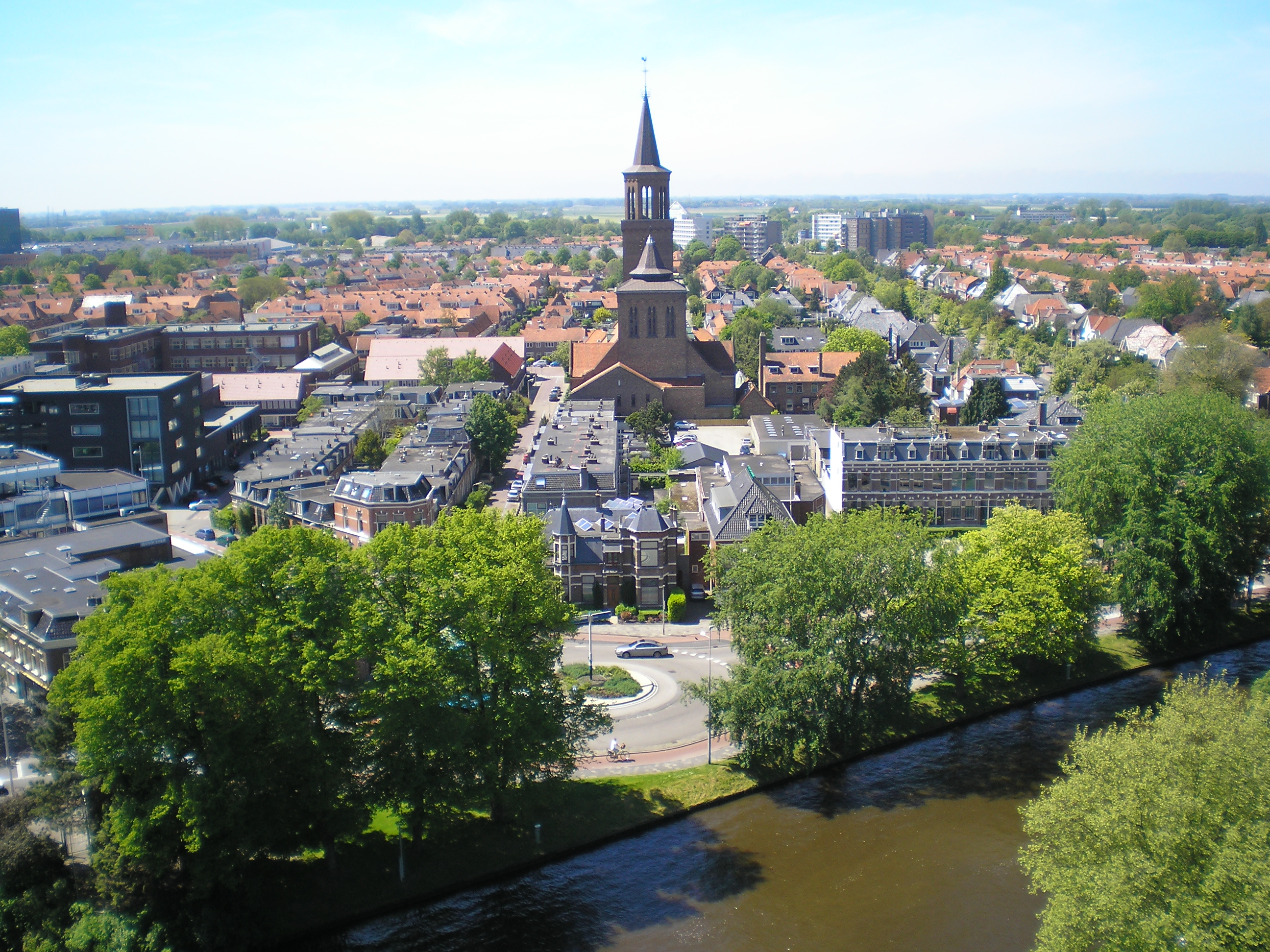 Leeuwarden seen from the Oldehove in the Netherlands